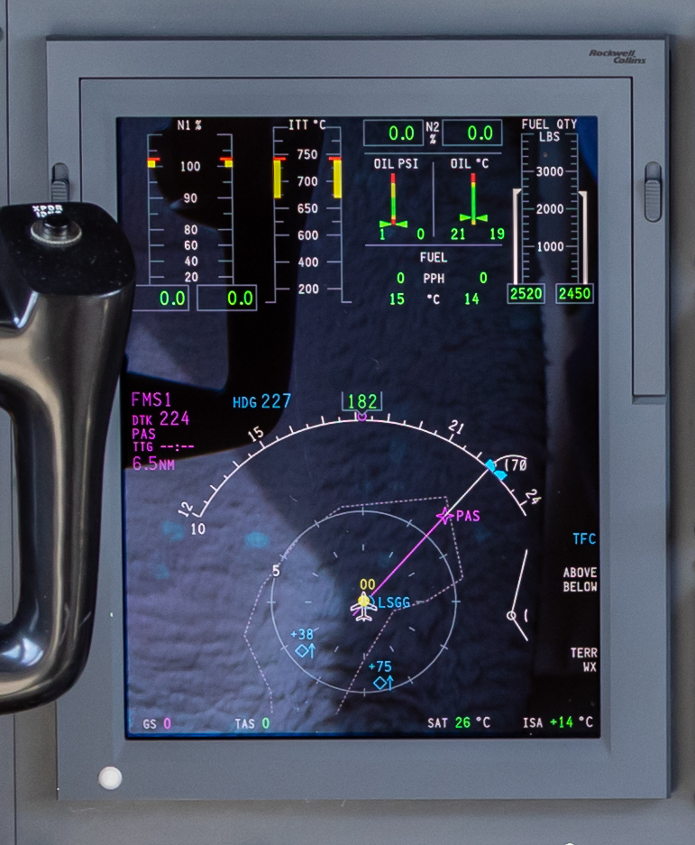 Cockpit of a Cessna Citation XLS at EBACE 2019, Palexpo, Switzerland